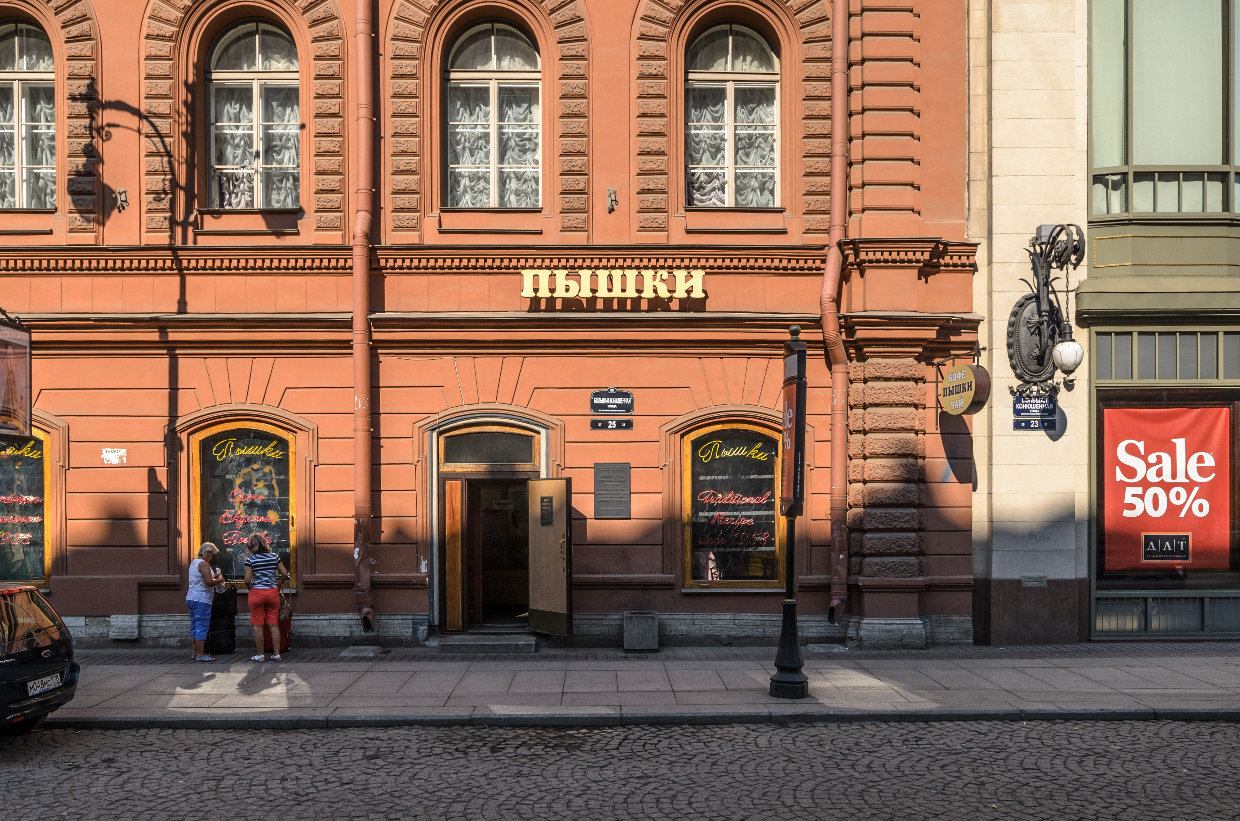 Donut Eatery (Pyshechnaya) at Bolshaya Konushennaya Street in Saint Petersburg